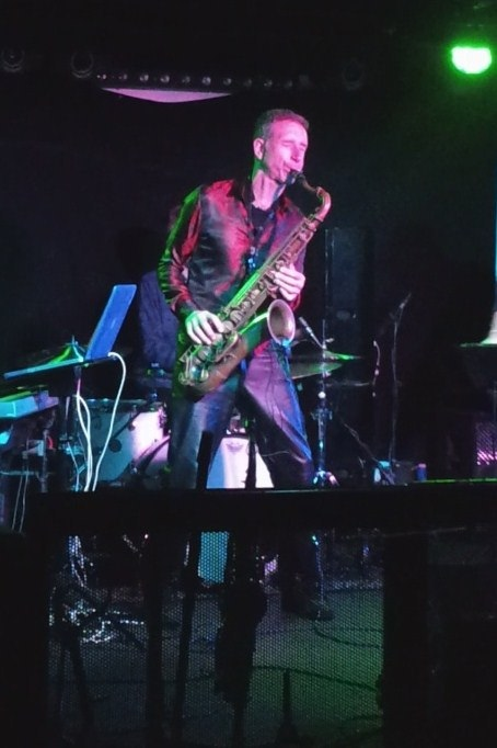 Image of Snake Davis live at Fibbers in York.